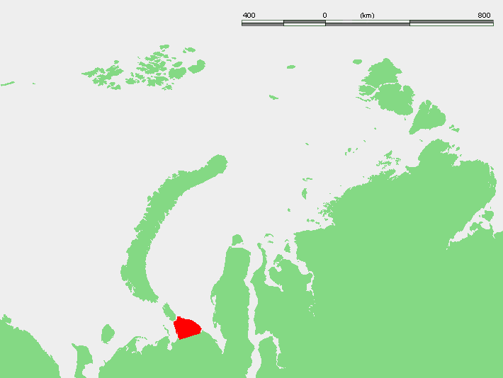 Location of the Yugorsky Peninsula in Russia: west of Yamal Peninsula and to the southeast of the islands Novaya Zemla and Vaigach